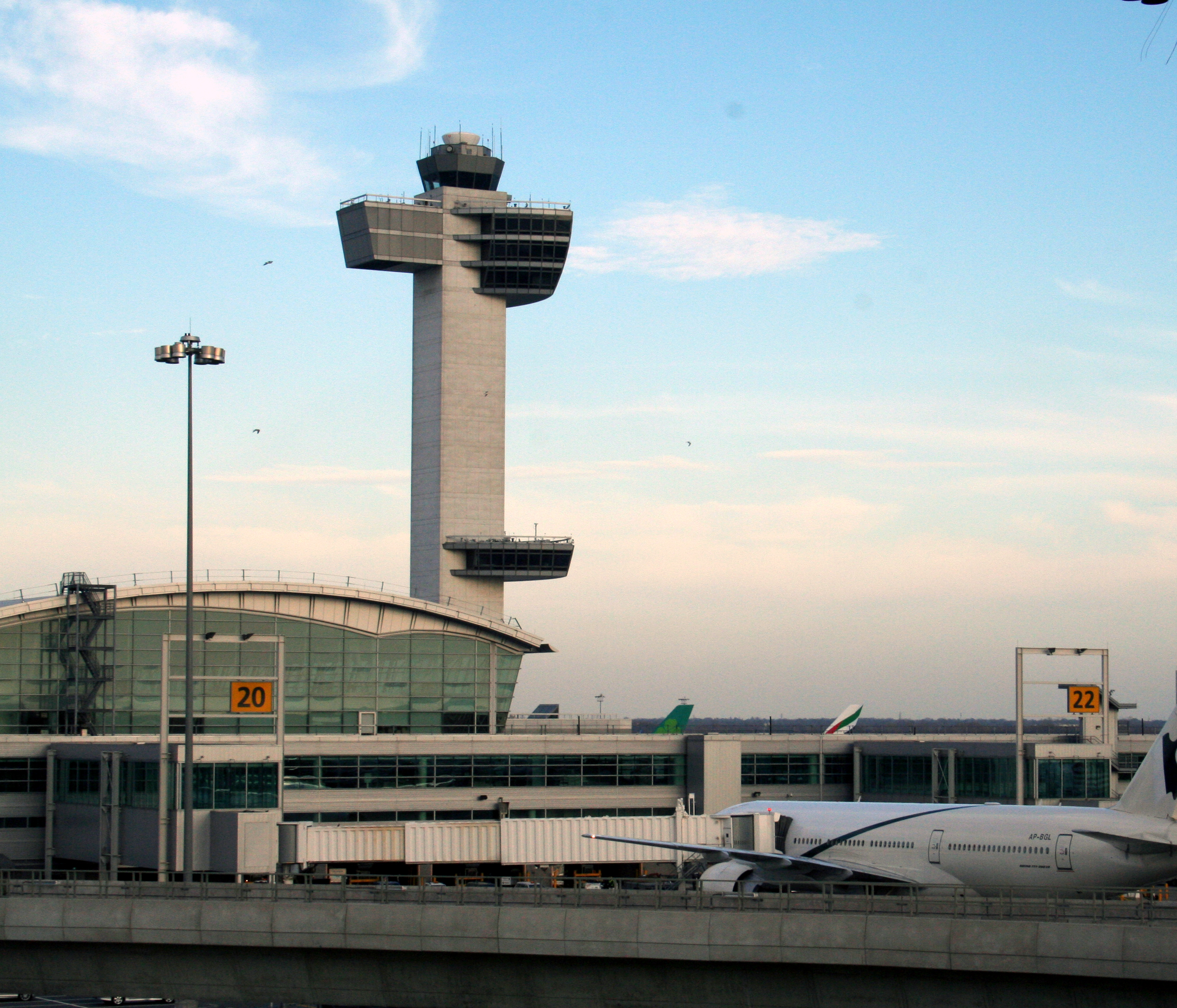 Tower and terminal at John F. Kennedy International Airport, New York.